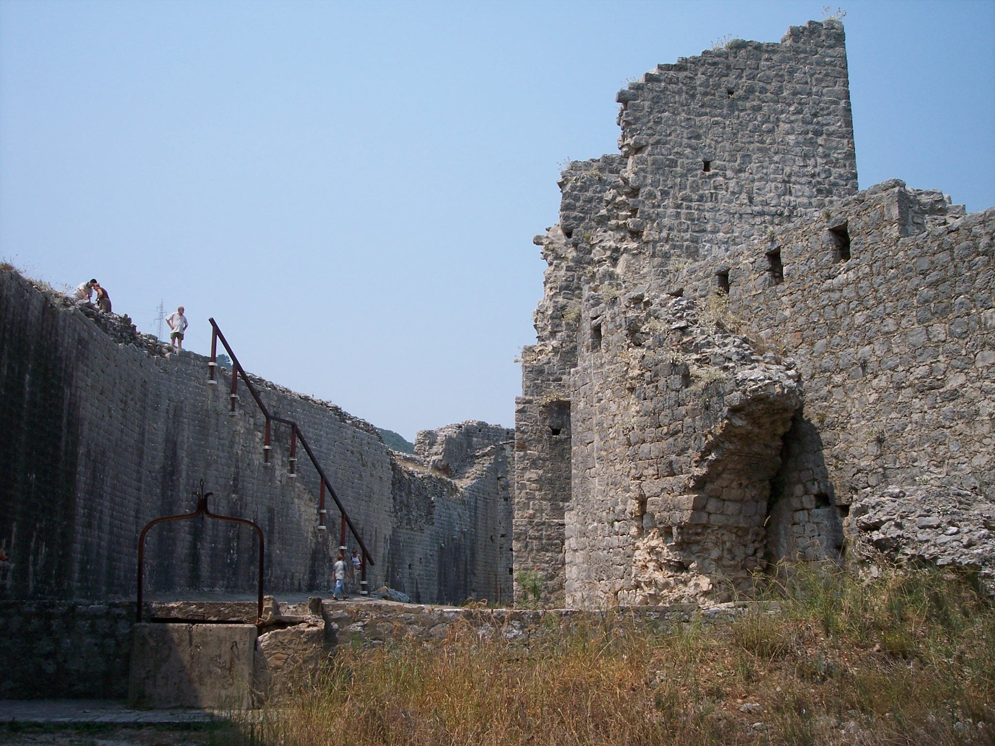 Fortifications at Ston (Croatia)